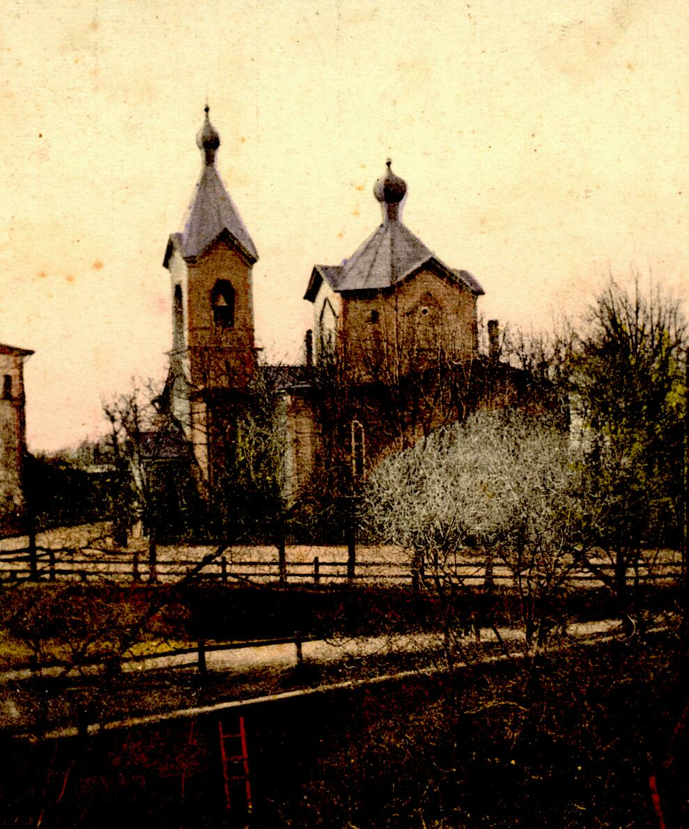 Lomonosov (Russia)